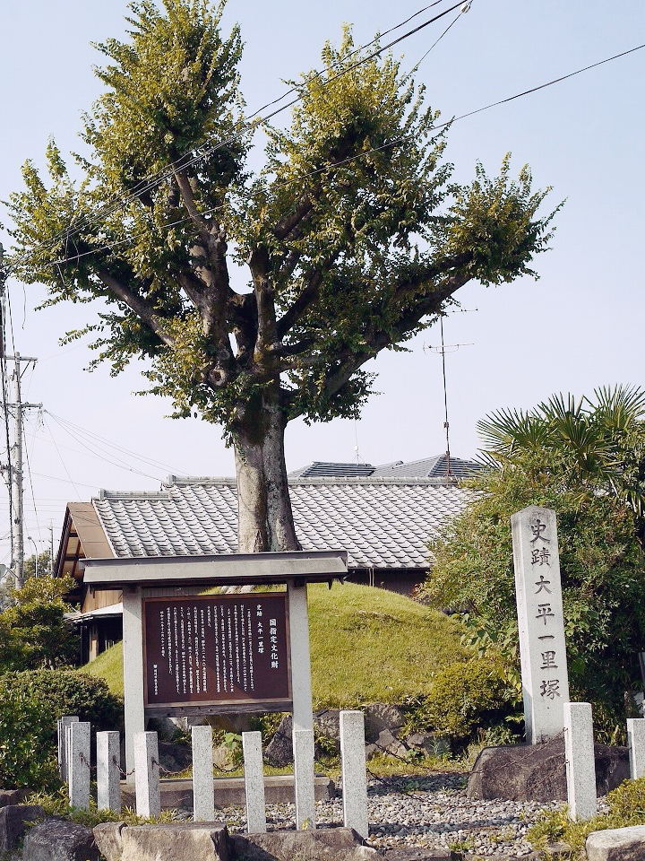 Ohira Ichirizuka on the Tōkaidō in Okazaki, Aichi, Japan.